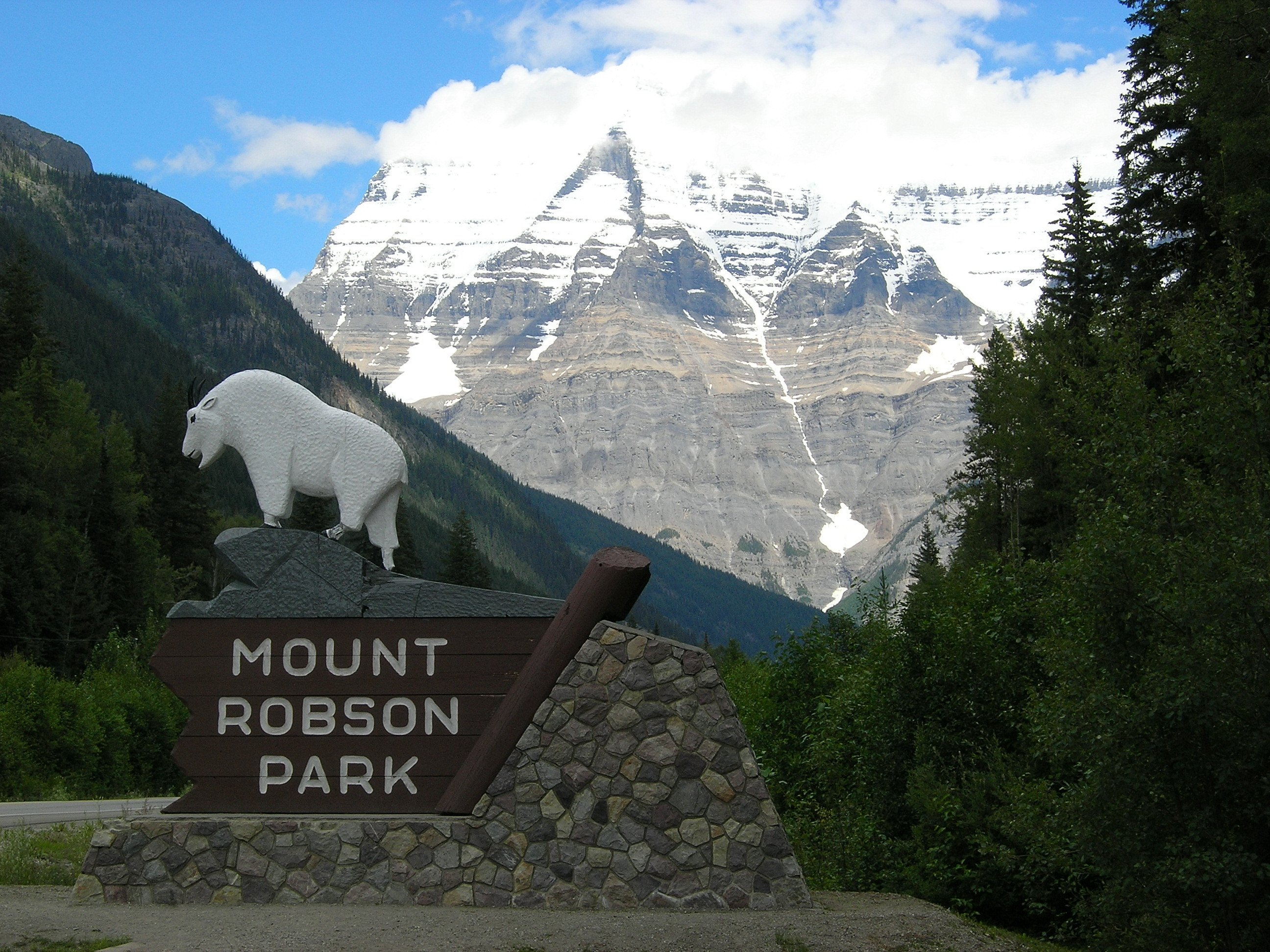 Entrance of Mount Robson Provincial Park, British Columbia, Canada